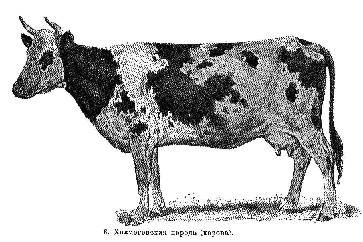 Illustration from Brockhaus and Efron Encyclopedic Dictionary(1890—1907)